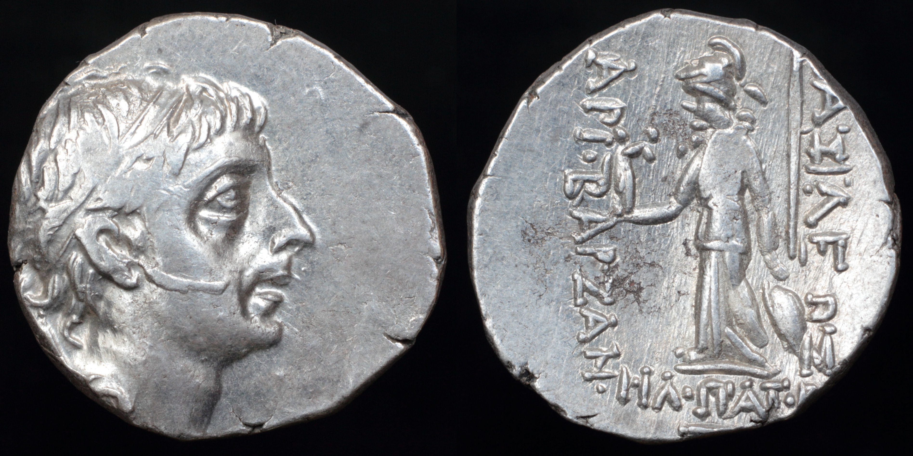 silver drachm of Ariobarzanes II Philopator struck in Eusebeia, 56? BC obverse: diademed head right reverse: Athena holding spear and Nike, shield at her feet legend:BAΣIΛEΩΣ / APIOBAPZANO[Y] / ΦIΛOPATOP[ΟΣ] Z? below reference: BMC Greek (Galatia) 1.p41; Simonetta 1977 1.p43